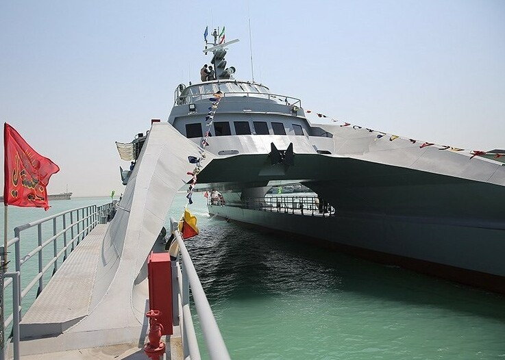 Accession ceremony of Shahid Nazeri speed vessel to Bushehr naval